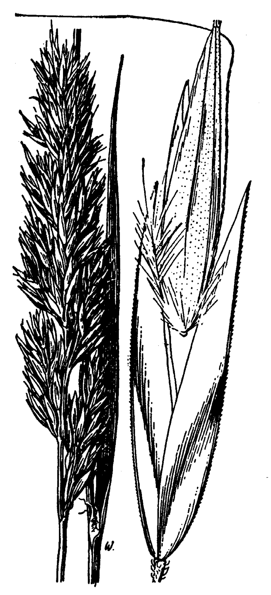 Calamagrostis purpurascens R. Br. purple reedgrass